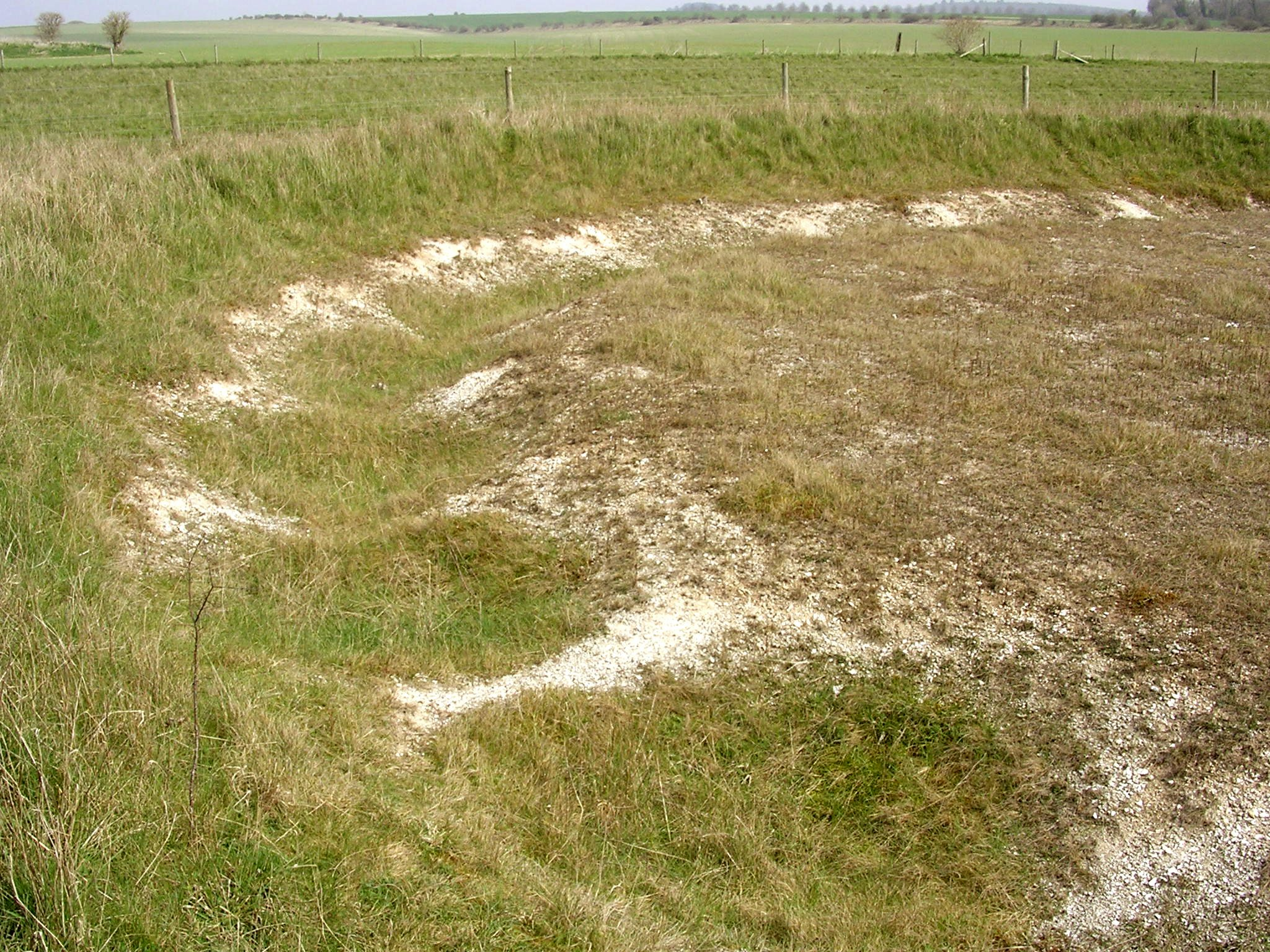 The ditch of the excavated larger henge on Wyke Down, Dorset. The ditch was dug as a series of oval pits, separated by narrow causeways.